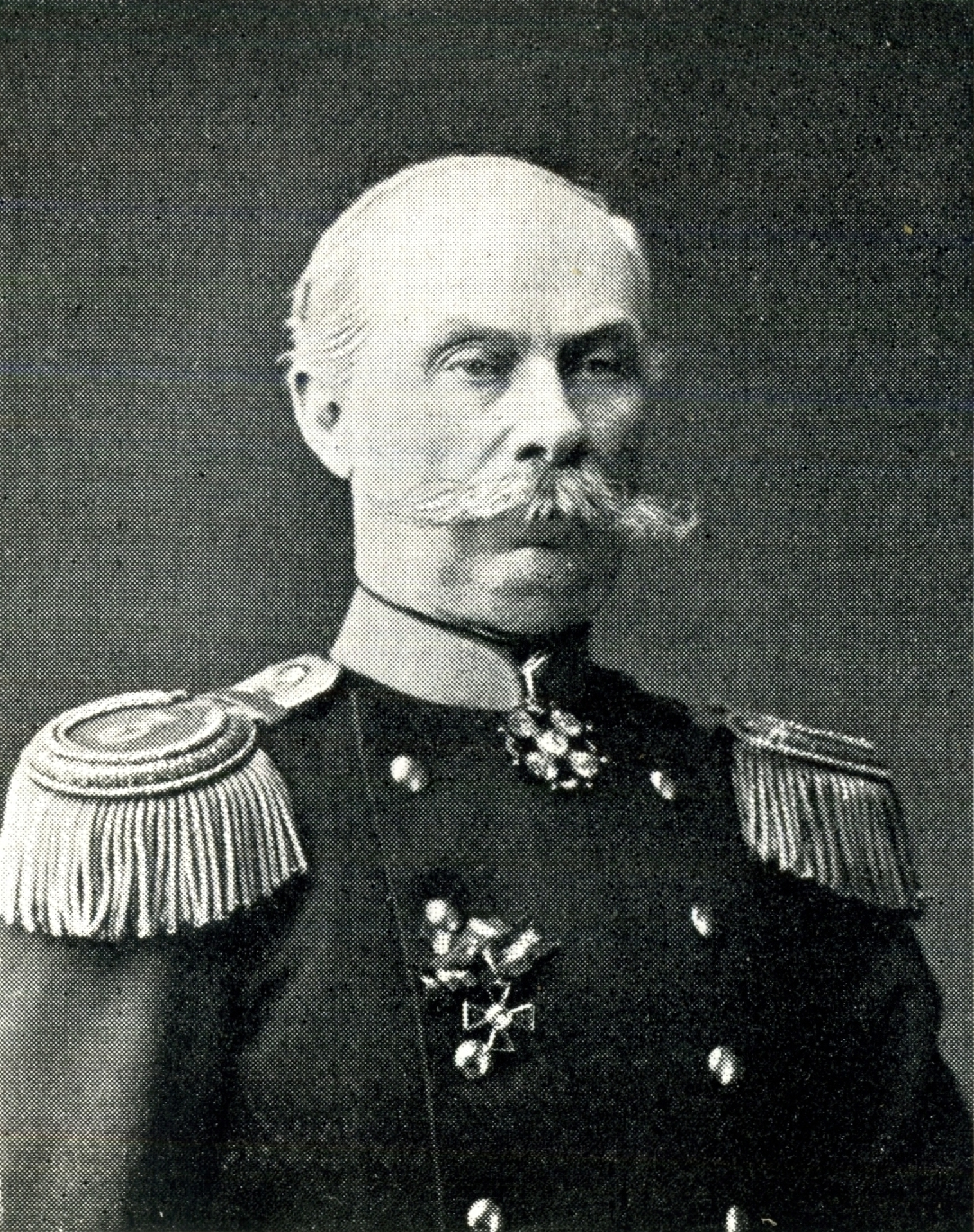 Colonel Russian Imperial Army Peter Chigirin (Chyhyryn) (1825-1897). Mayor of Kovel in 1882-1892